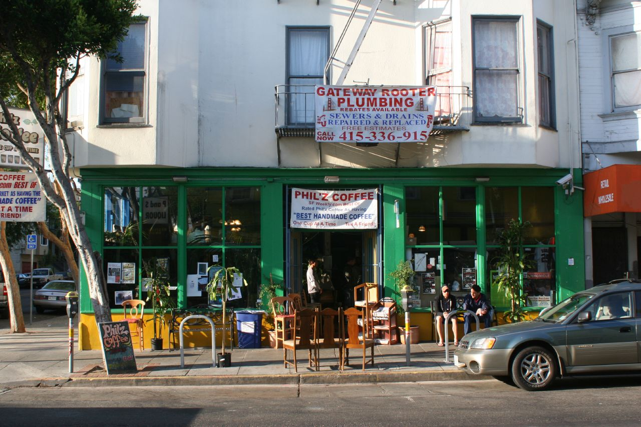 Philz Coffee - 24th/Folsom - SF, CA